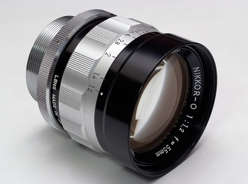 Nippon Kogaku NIKKOR-O 55mm F1.2